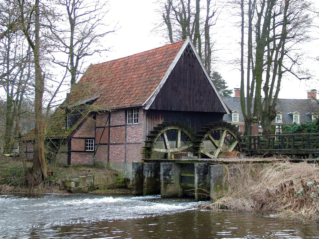 1The watermill in Lage(Dinkel), County of Bentheim, Germany on March 30, 2006